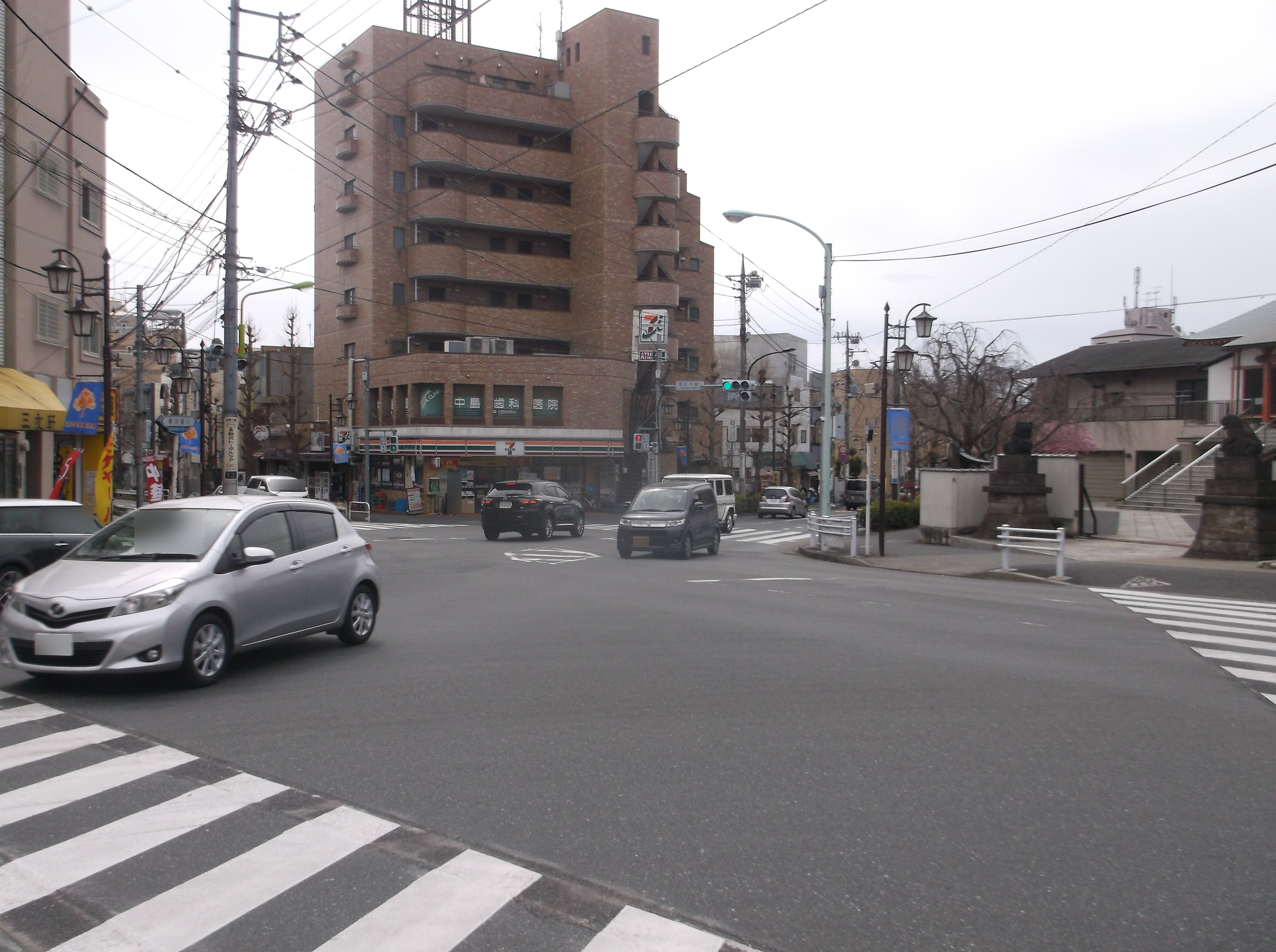 A photo of Fukasawa Fudo Intersection,Fukasawa,Setagaya-ku,Tokyo,Japan.